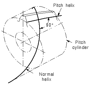 Normal helix